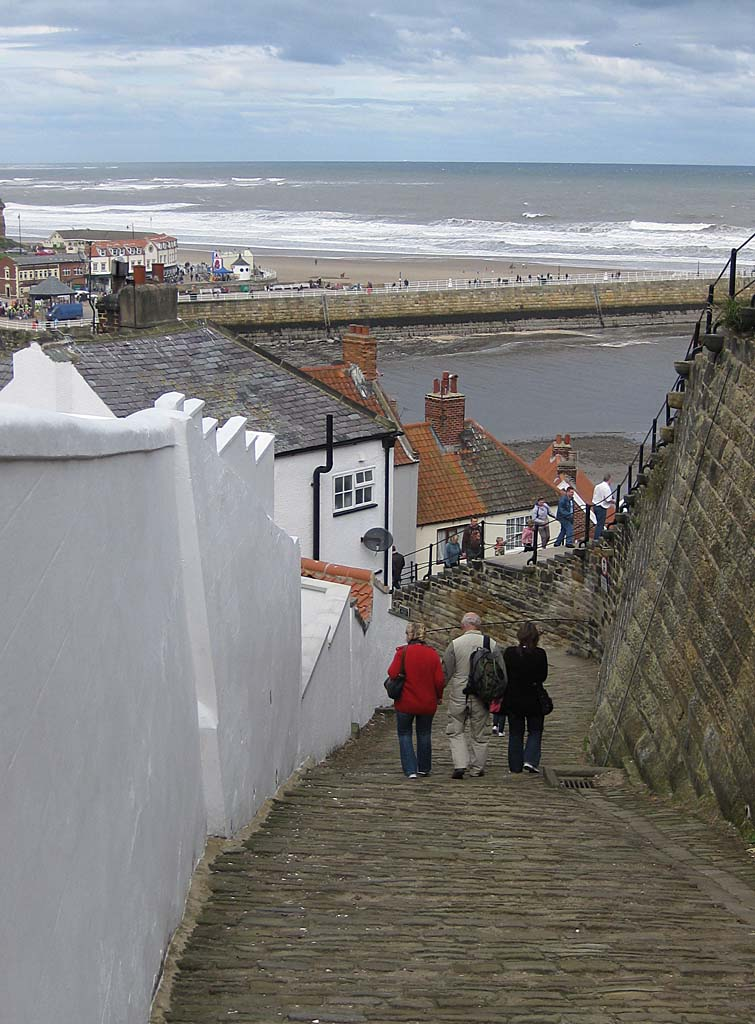 Church Lane or Donkey Road